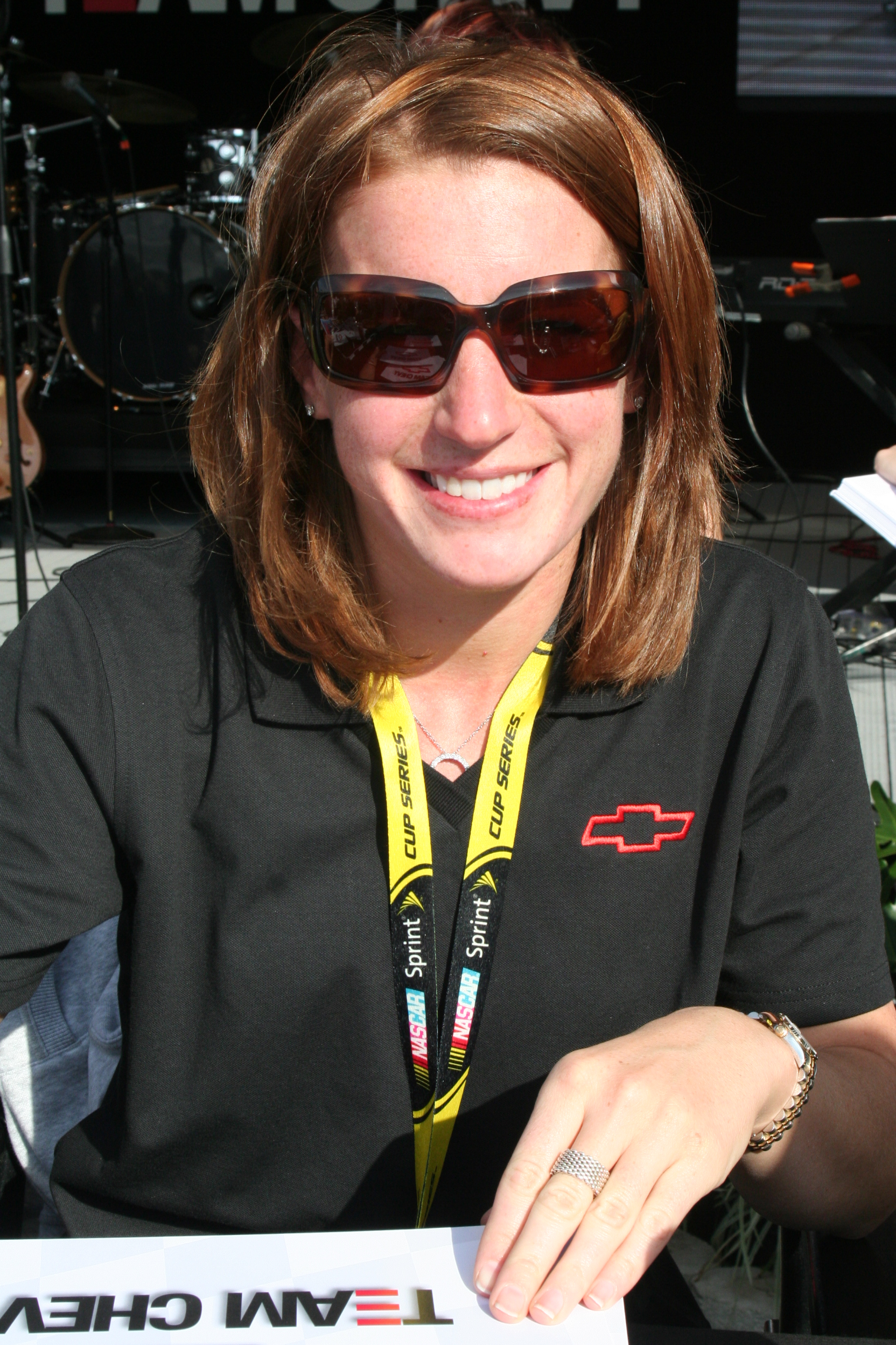 NASCAR driver Erin Crocker. Shot by The Daredevil at Daytona during Speedweeks 2008